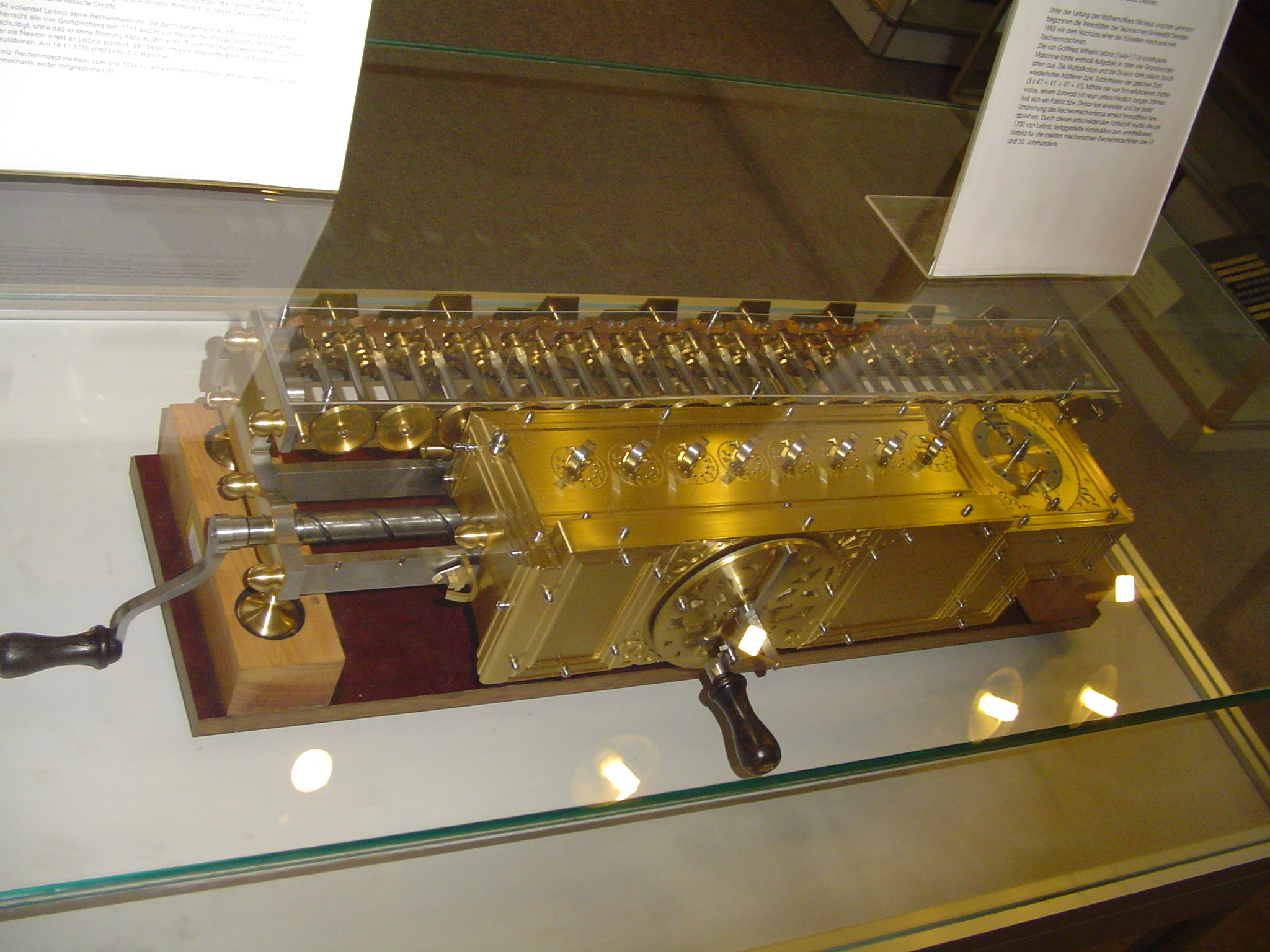 The Staffelwalze, or Stepped Reckoner, a digital calculating machine invented by Gottfried Wilhelm Leibniz around 1672 and built around 1700, on display in the Technische Sammlungen museum in Dresden, Germany. It was the first known calculator that could perform all four arithmetic operations; addition, subtraction, multiplication and division. 67 cm (26 inches) long. The cover plate of the rear section is off to show the wheels of the 16 digit accumulator. Only two machines were made. The single surviving prototype is in the National Library of Lower Saxony (Niedersächsische Landesbibliothek) in Hannover; this is a contemporary replica.